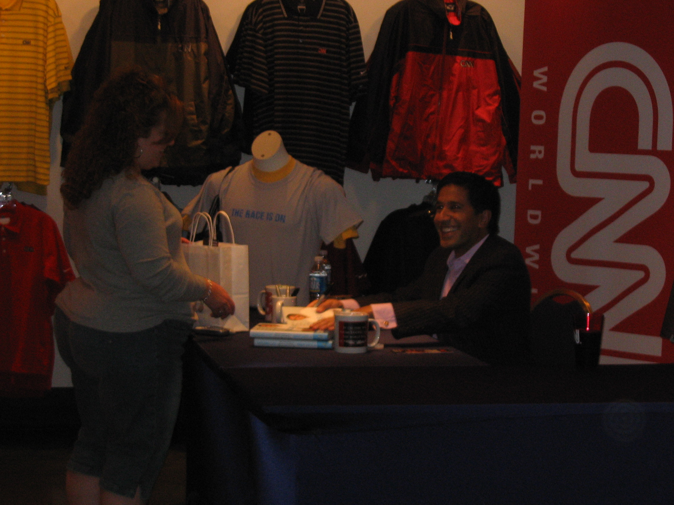 Dr. Sanjay Gupta signing a copy of his book for a fan in the CNN gift shop. Atlanta, Georgia, USA